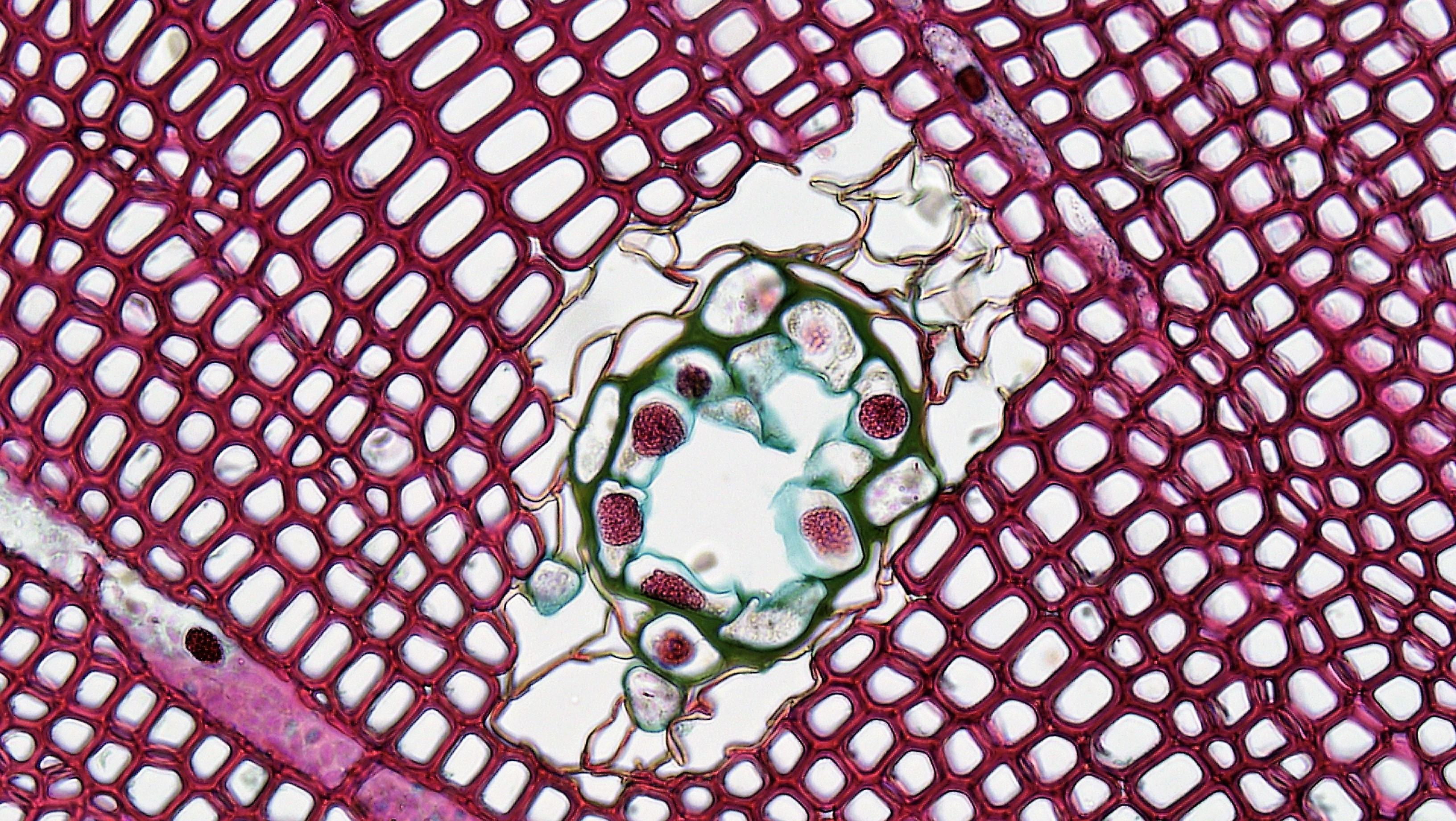 cross section: Pinus stem magnification: 100x Because of the greater production of xylem, the vascular cylinder is dominated by radially arranged rays of secondary xylem interspaced with medullary rays of parenchyma cells. Conspicuous resin ducts are found in the cortex, primary and secondary xylem, but rarely the pith. The ducts are surrounded by secretory parenchyma that produces resins and many toxic terpenes including the turpentines. This antiseptic material solidifies when exposed to air, acting to seal wounds, to protect the plant from fungi, insect and bacterial infection and to discourage herbivores. Some secretory cells enlarge into dark staining tyloses that block the resin dusts. Visit the BCC Bioscience Image featuring the Microscopic World of Plants.